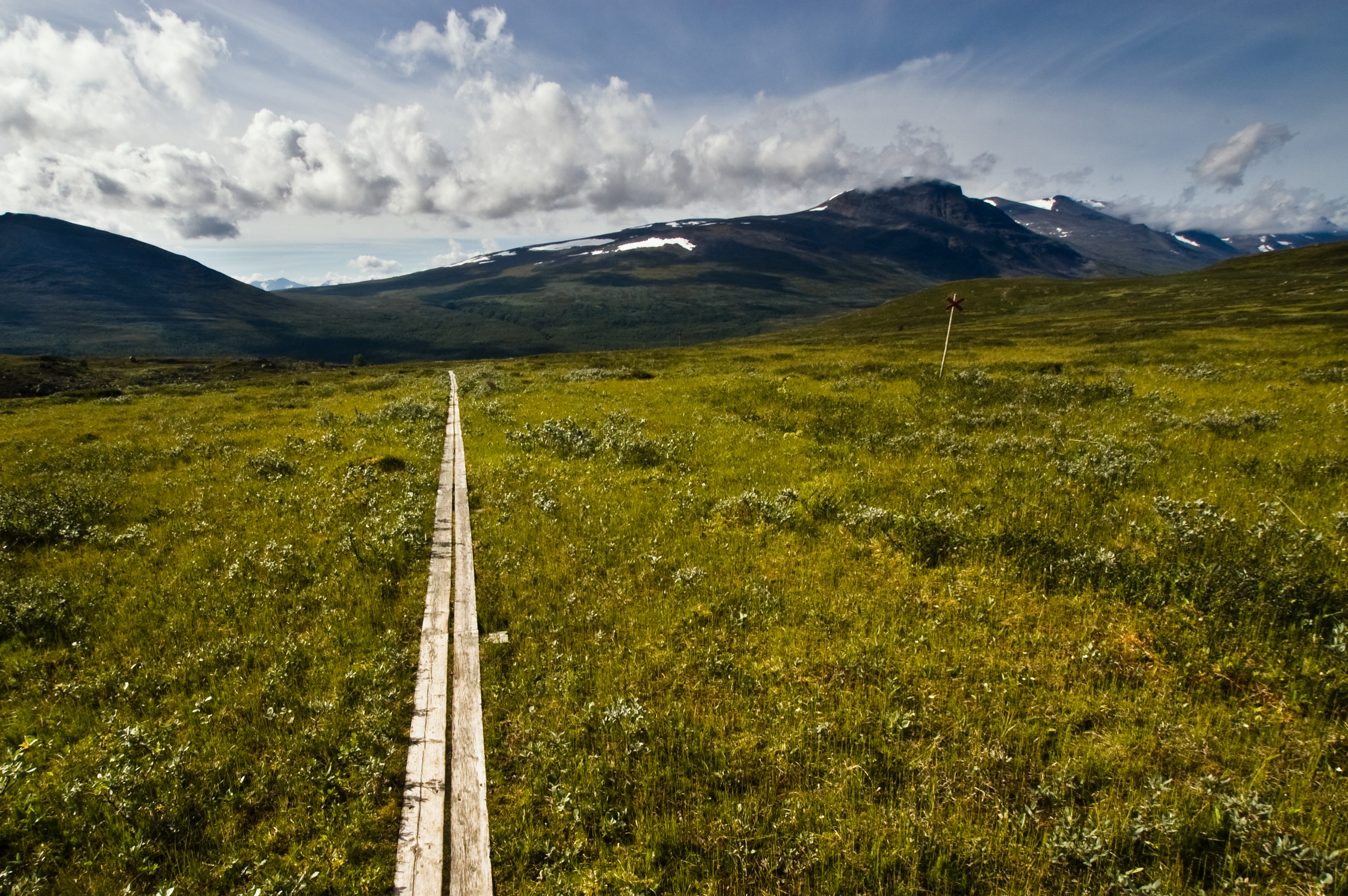 Kungsleden hiking trail, in Swedish Lappland, just over the Teusa lake, south of Kebnekaise.